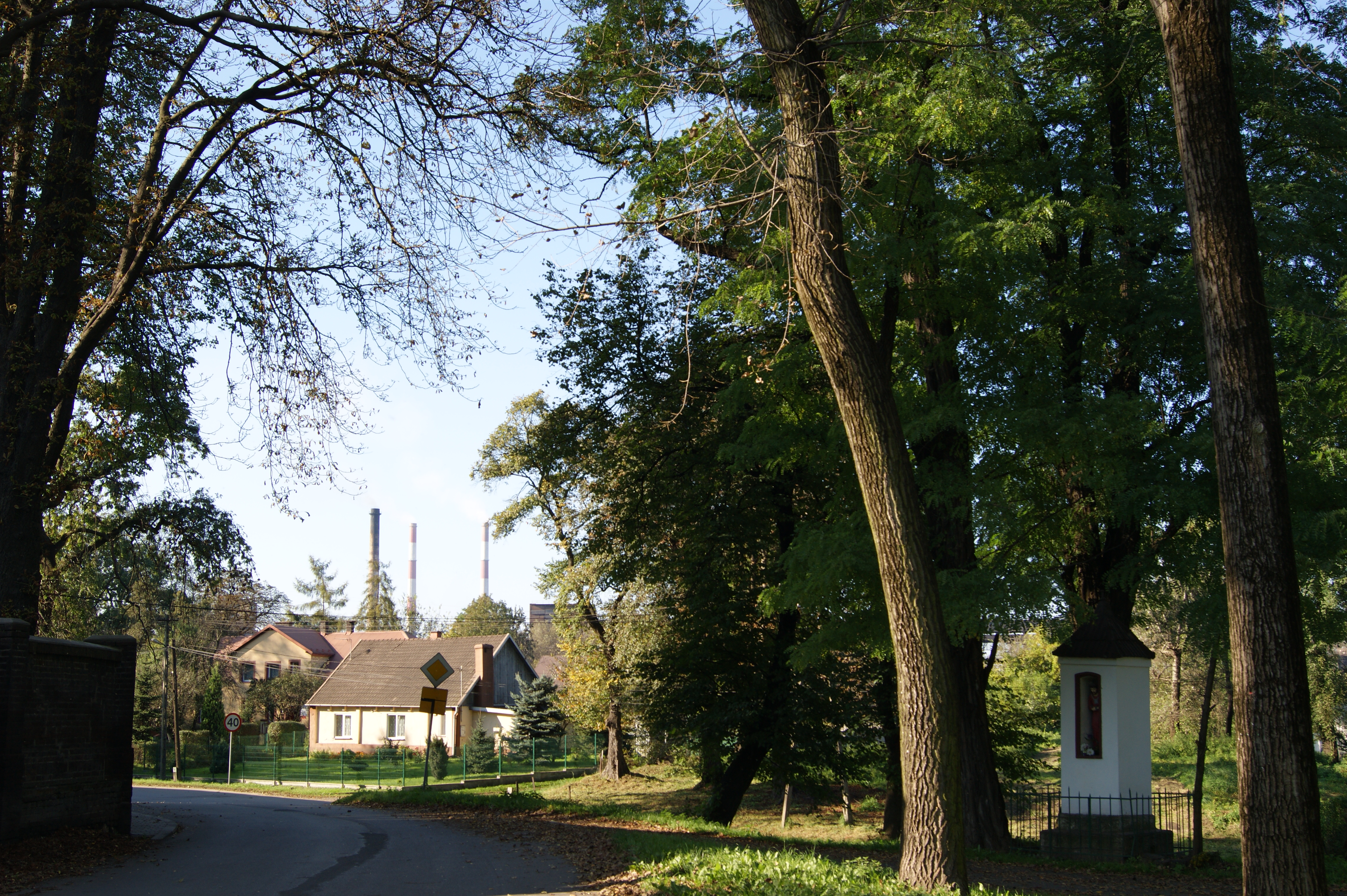 Pleszow village,Nowa Huta,Krakow,Poland